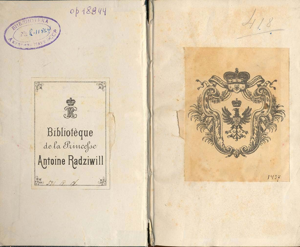 Ex-librises of Marie de Castellane (1840-1915), wife of Antoni Radziwill, and of her son Stanislaw Radziwill (1880-1920)